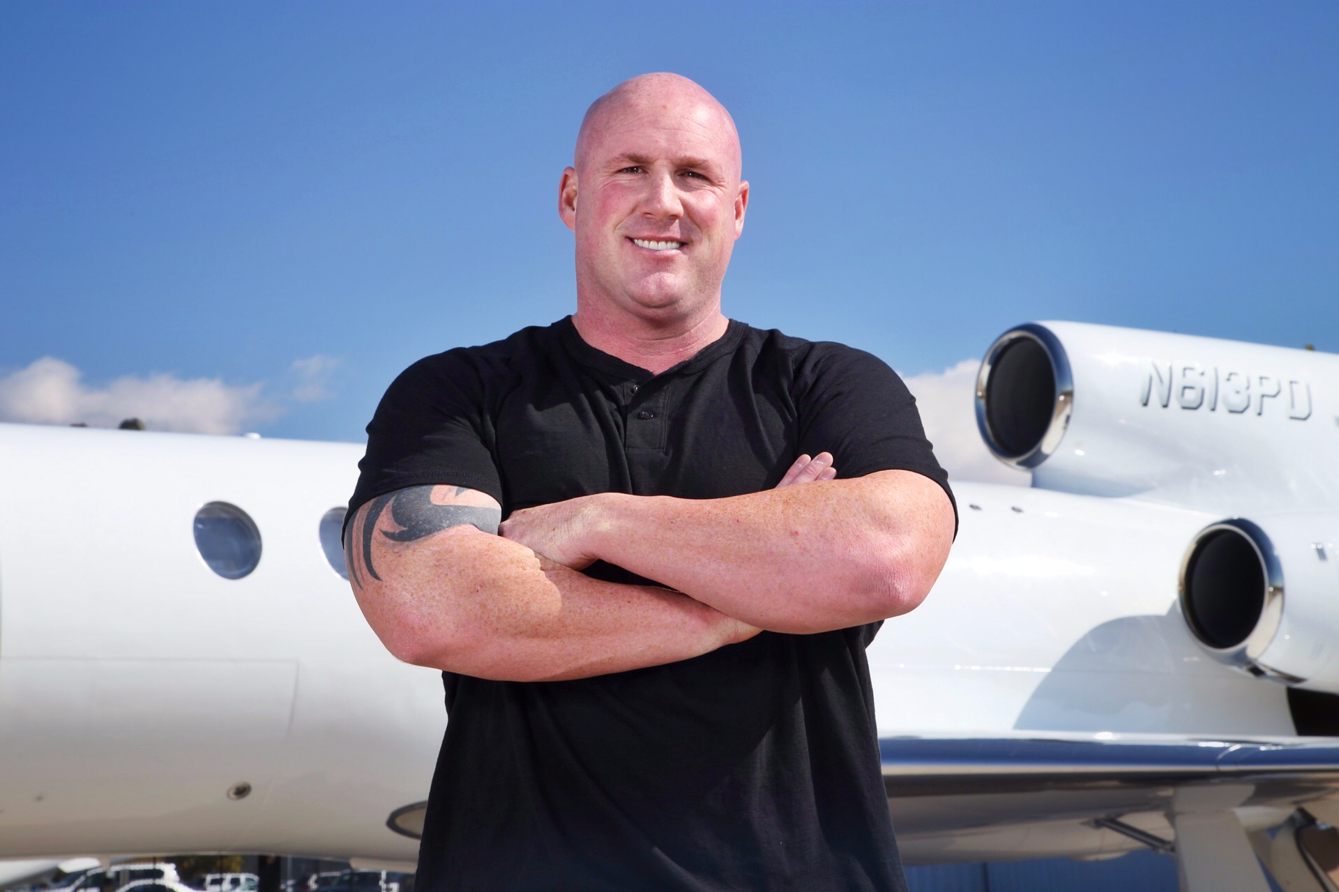 Doug Clark, former pilot turned real estate guru